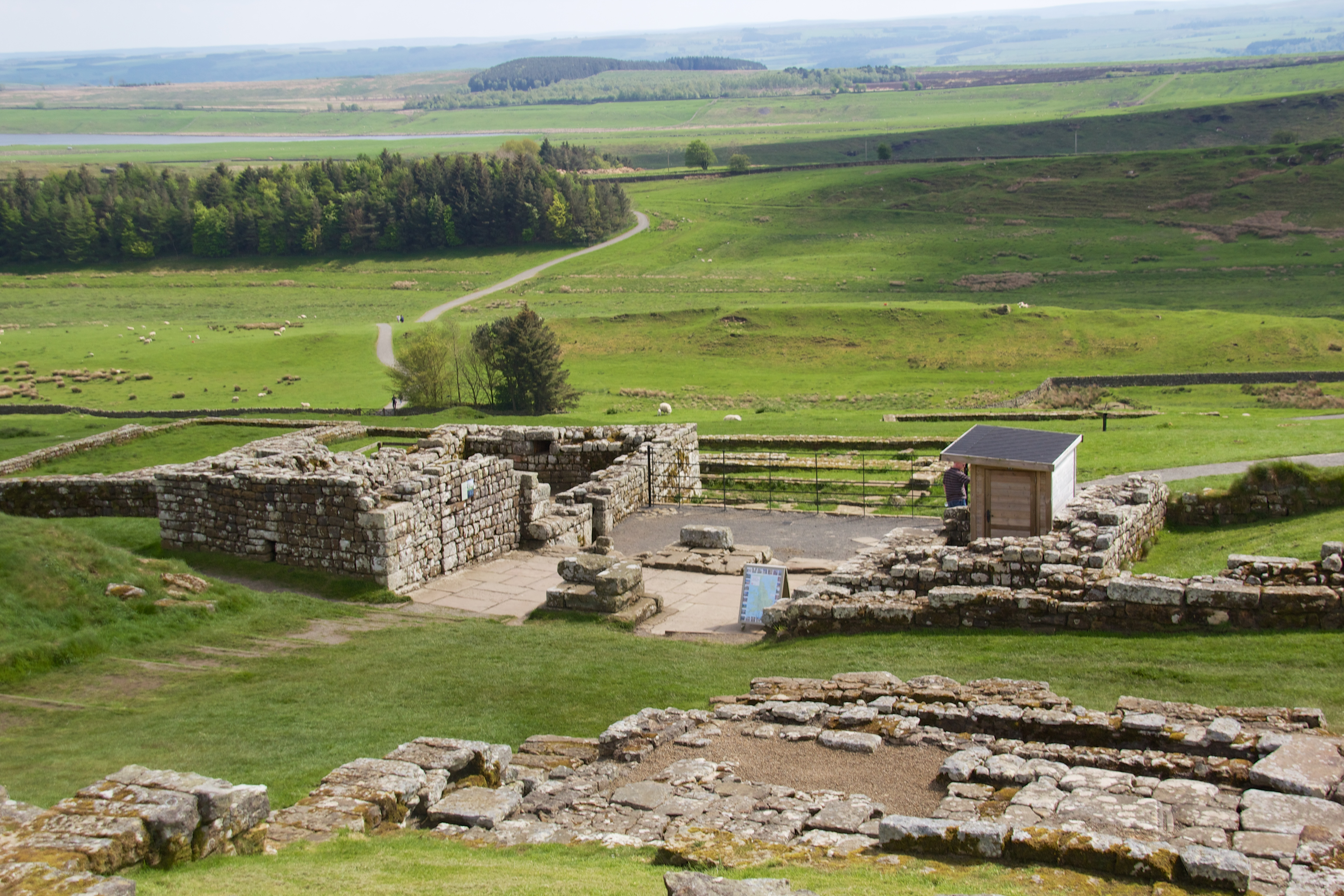 South Gate at Housesteads Roman Fort at Housesteads roman fort on Hadrian's Wall.